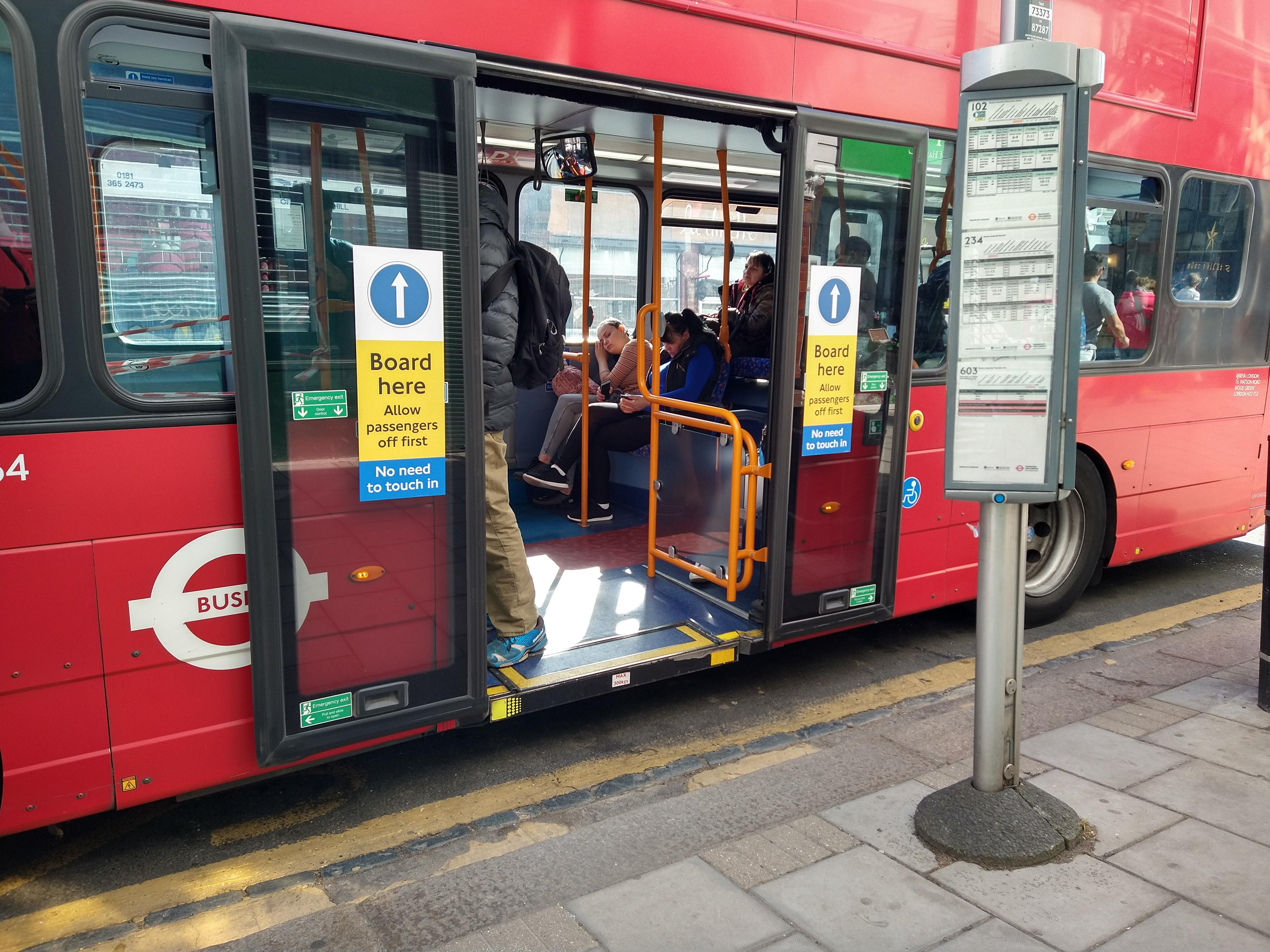 Board here on London bus during COVID 19 pandemic